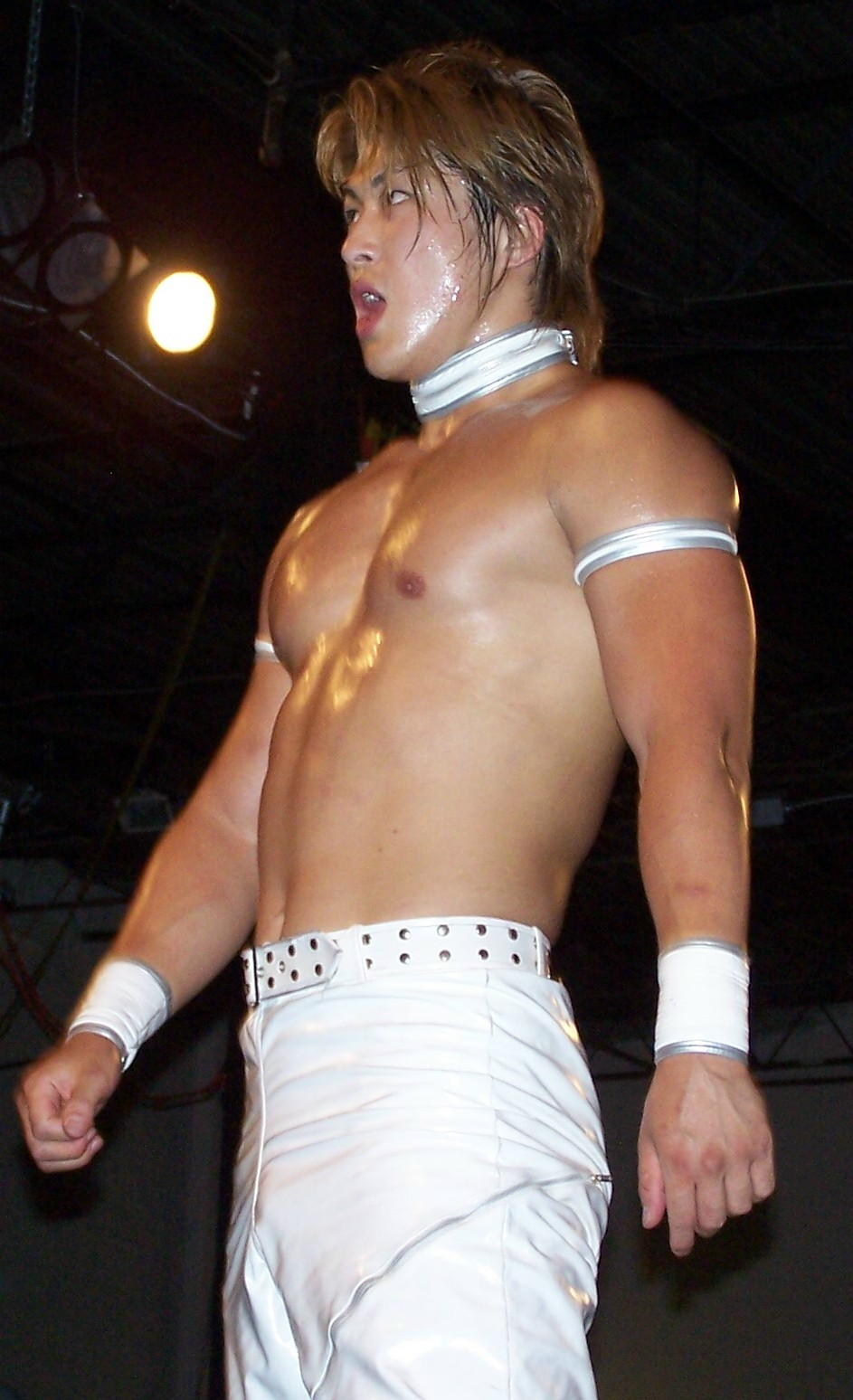 Photo of BxB Hulk (Terumasa Ishihara) taken at a Pro Wrestling Unplugged show in Philadelphia.